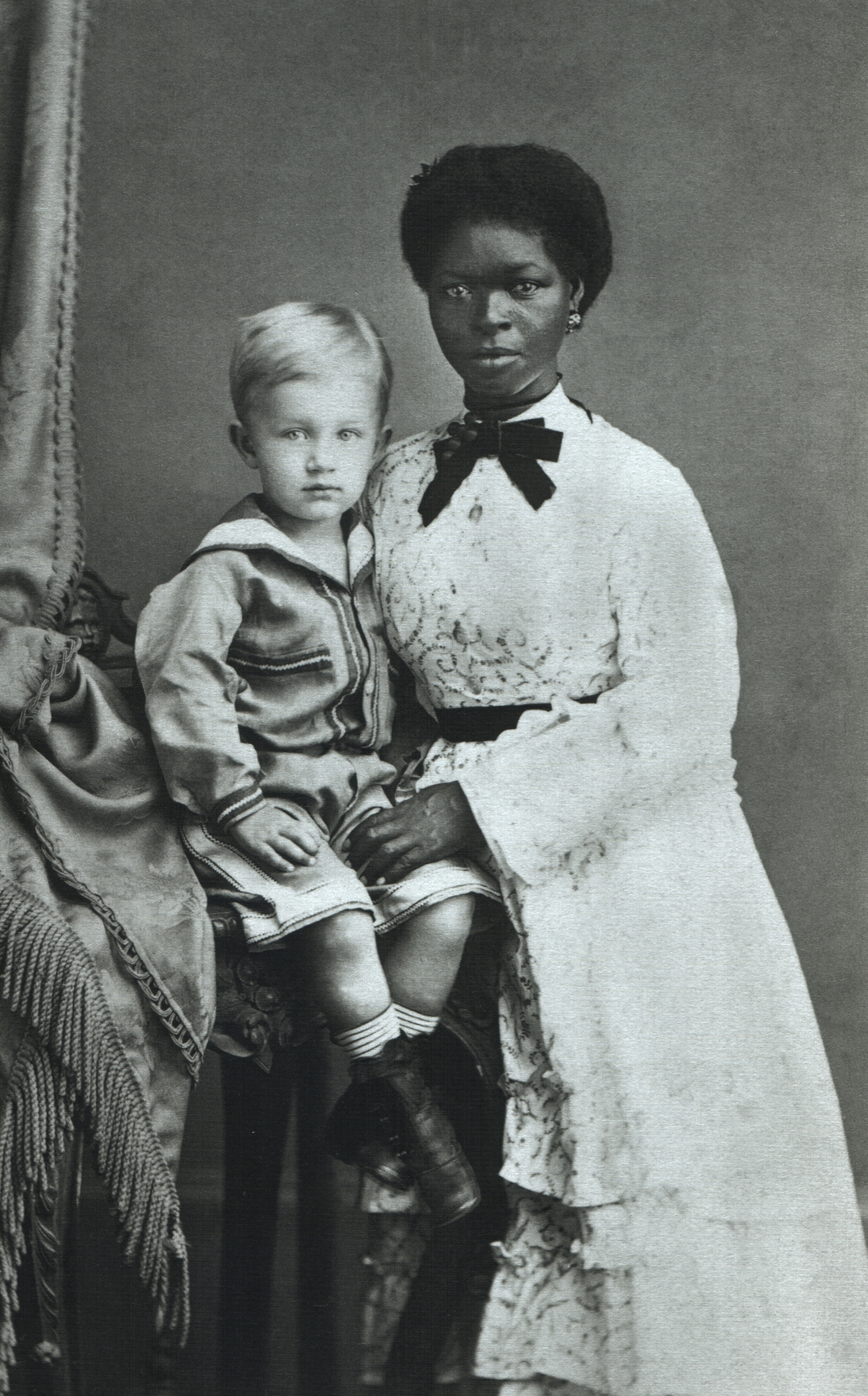 Eugen Keller and his nanny in Pernambuco, Brazil.